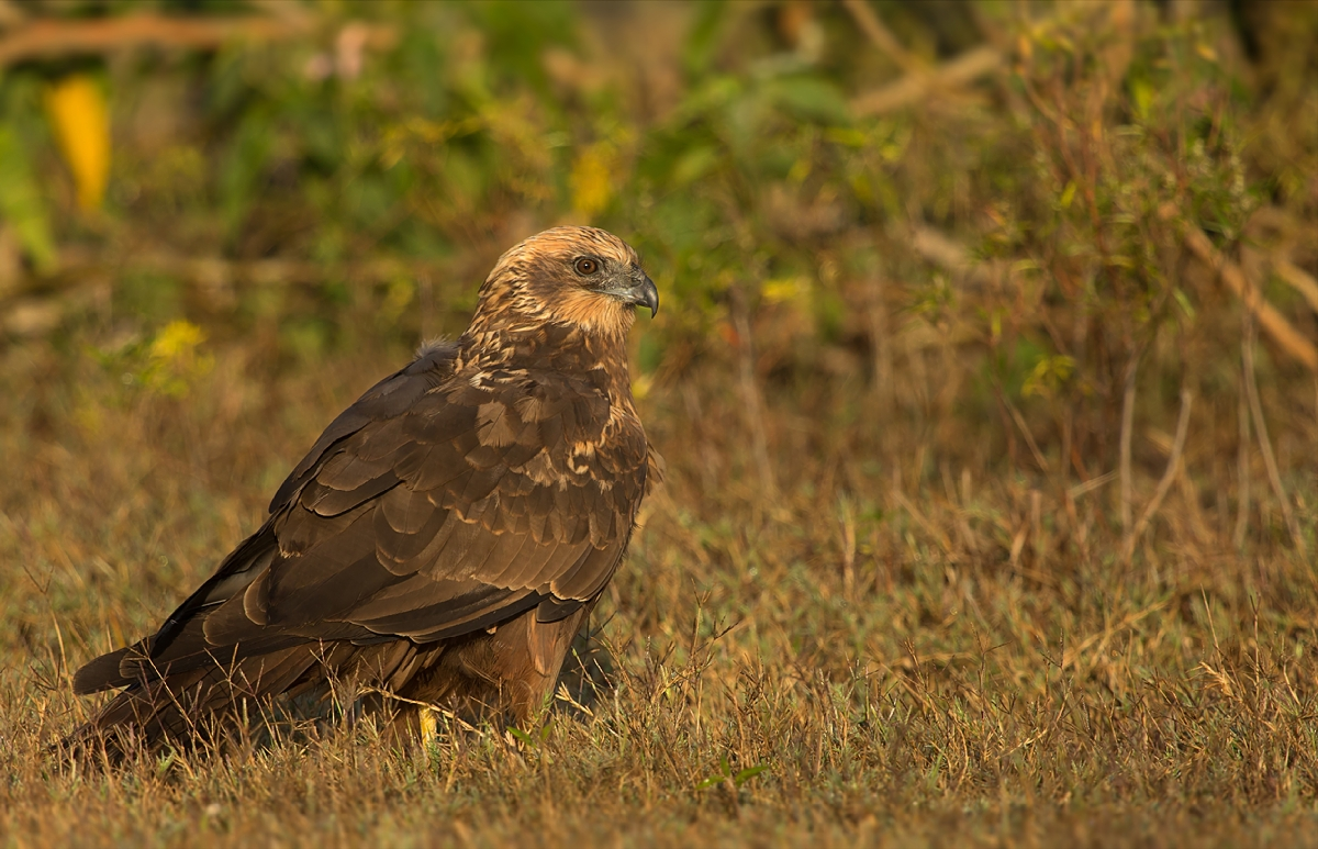 An adult at [Hesarghatta Lake]